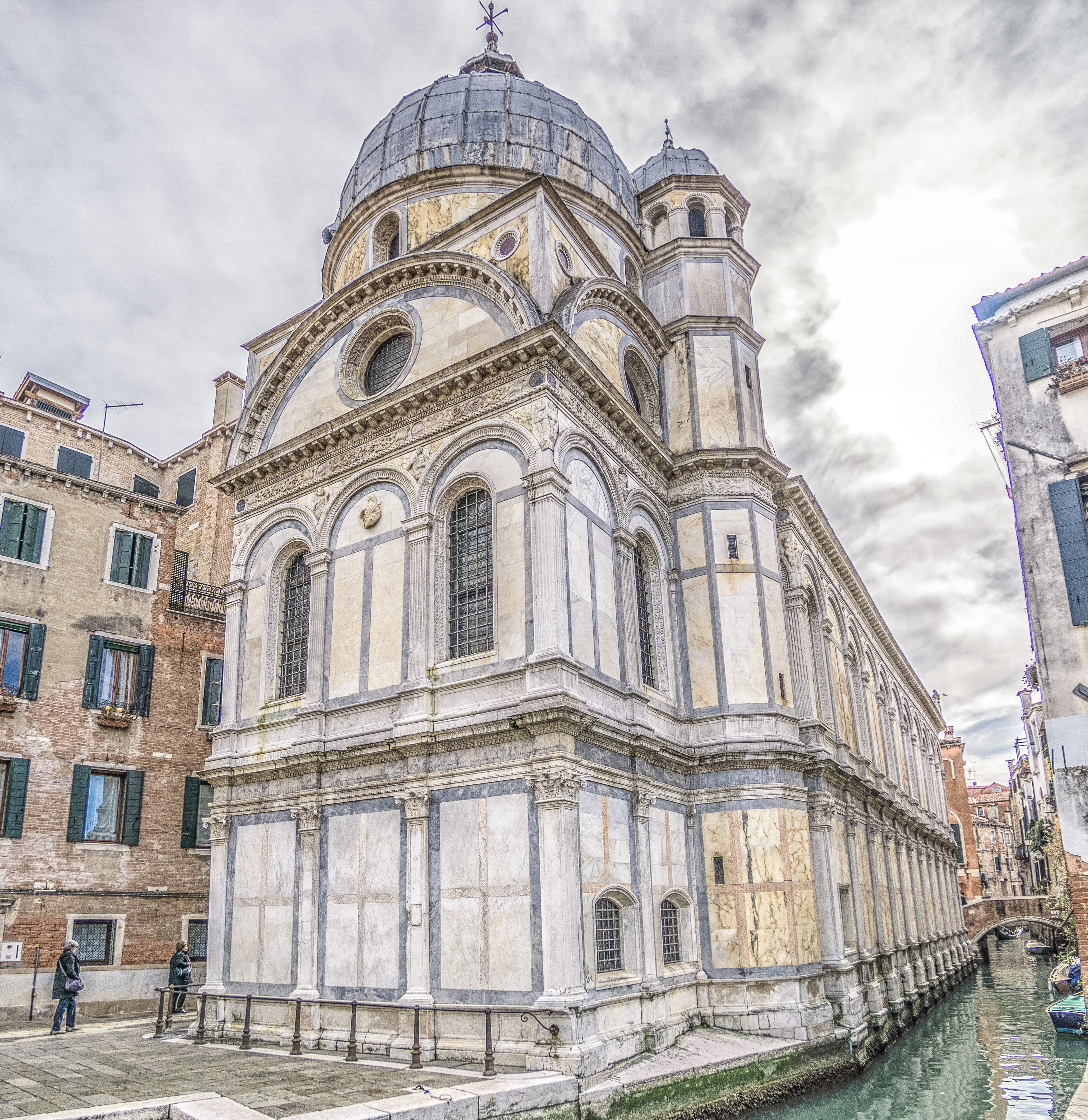 Chiesa di Santa Maria dei Miracoli